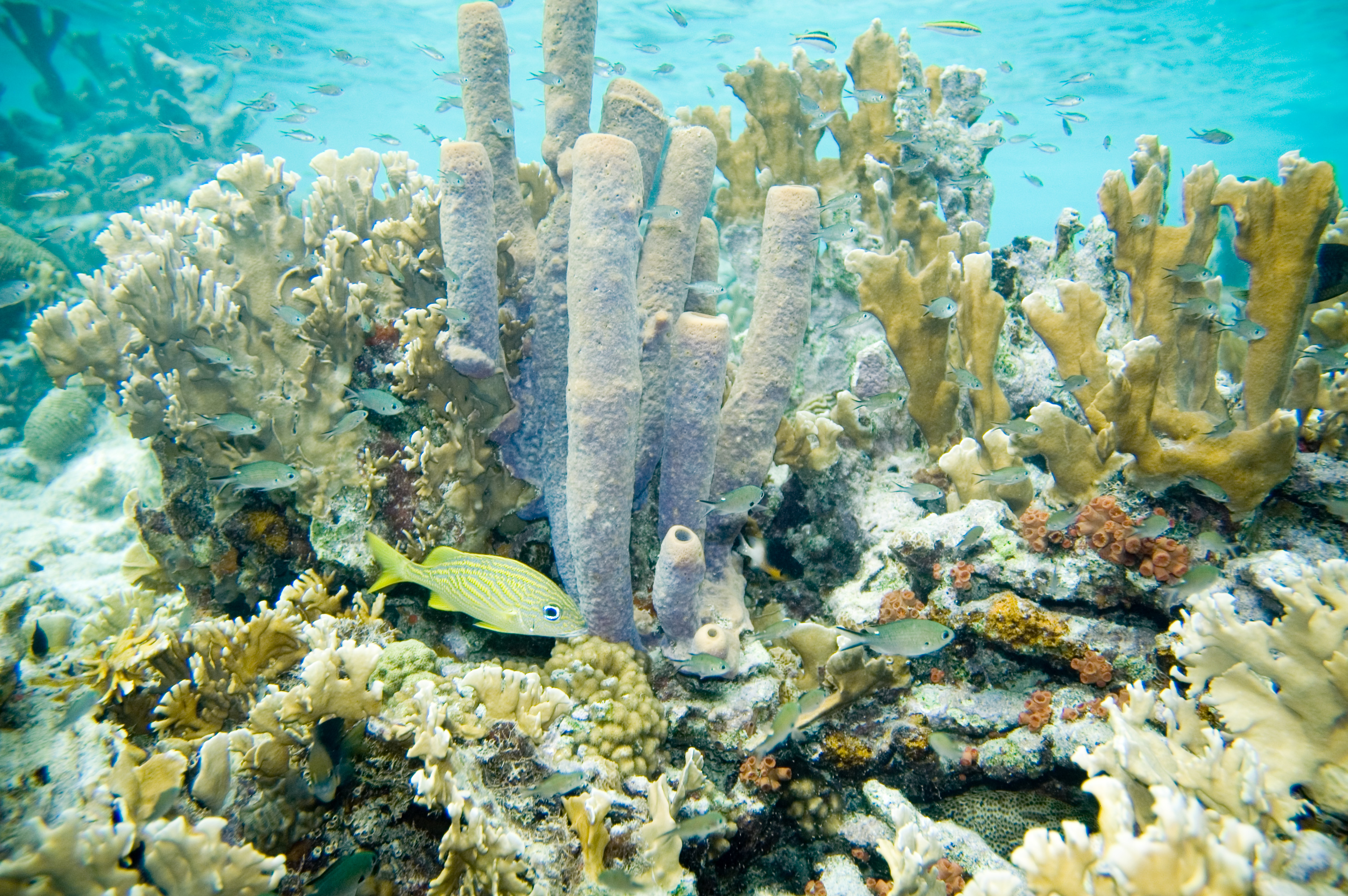 french grunt Haemulon flavolineatum with brown chromis Chromis multilineata, bicolor damselfish Stegastes partitus, blade fire coral Millepora complanata, and branching vase sponge Callyspongia vaginalis